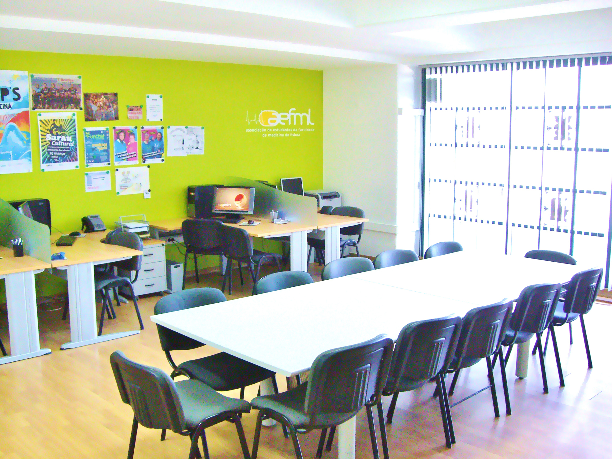 main office of the Student Committee of the Lisbon Faculty of Medicine